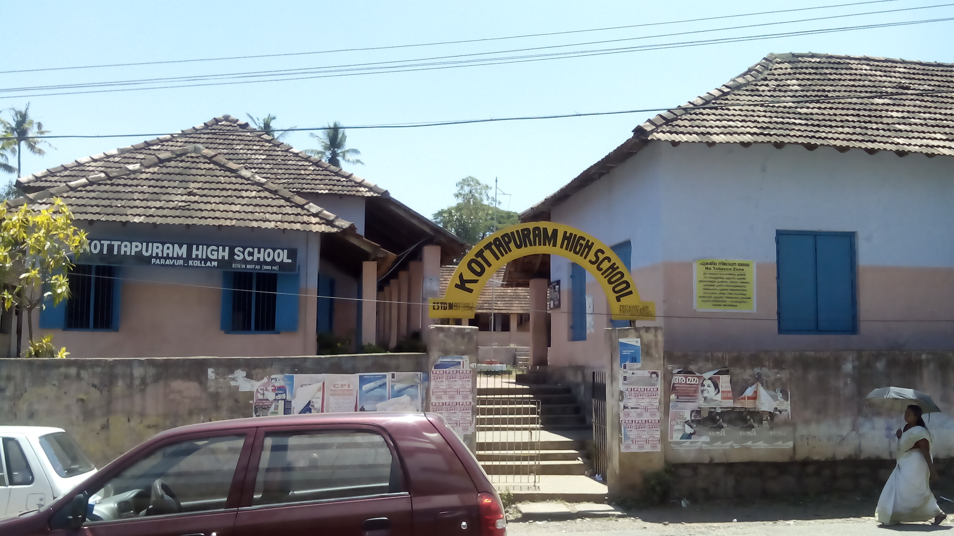 Kottapuram High School is one of the famous aided high schools in the Paravur Town.